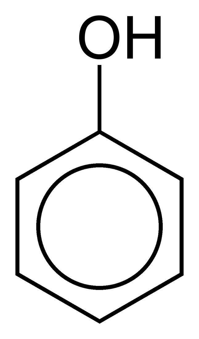 Skeletal formula of phenol